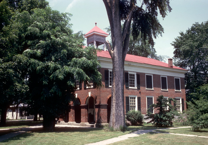 Caroline County Courthouse (Built 1803-1809), Bowling Green (Caroline County, Virginia) This image or file is a work of a United States Department of Agriculture employee, taken or made as part of that person's official duties. As a work of the U.S. federal government, the image is in the public domain. Object location38° 03′ 03″ N, 77° 20′ 50″ W